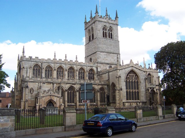 St Swithuns Church East Retford My daughter was Christened here.